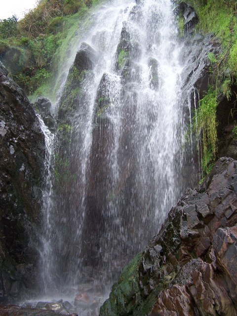 Clovelly Waterfall There is a cave behind the waterfall where legend has it that the Arthurian magician, Merlin, was born...